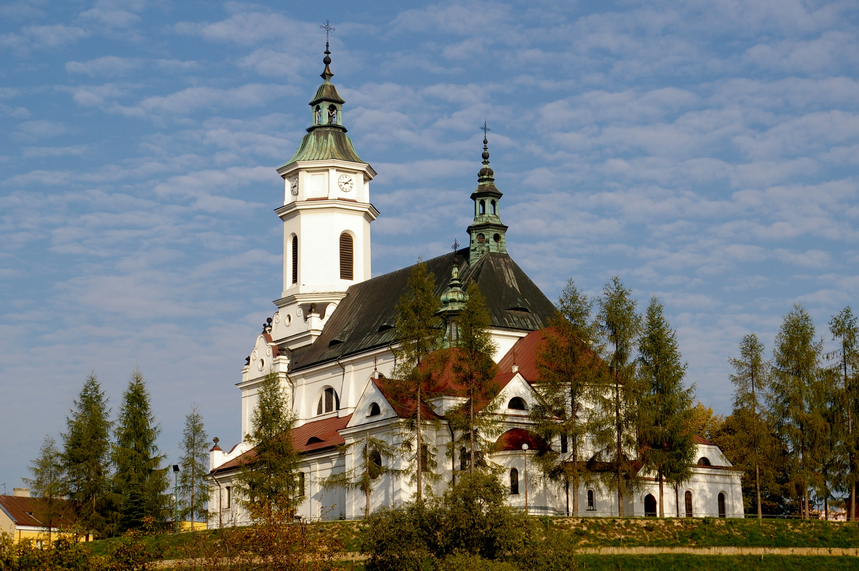 Saint Michael's Church in Ostrowiec Świętokrzyski